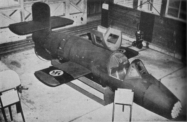 Bachem Ba 349 rocket-propelled interceptor.